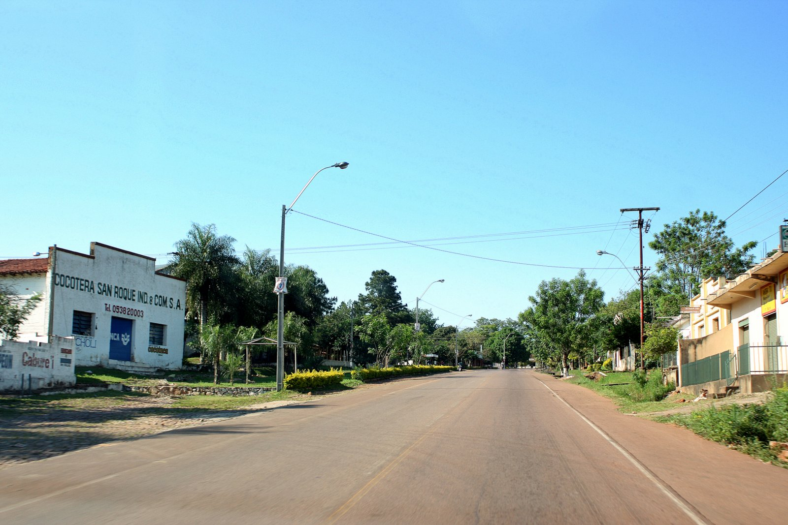 Route 1 passes through the town of San Roque González de Santacruz.